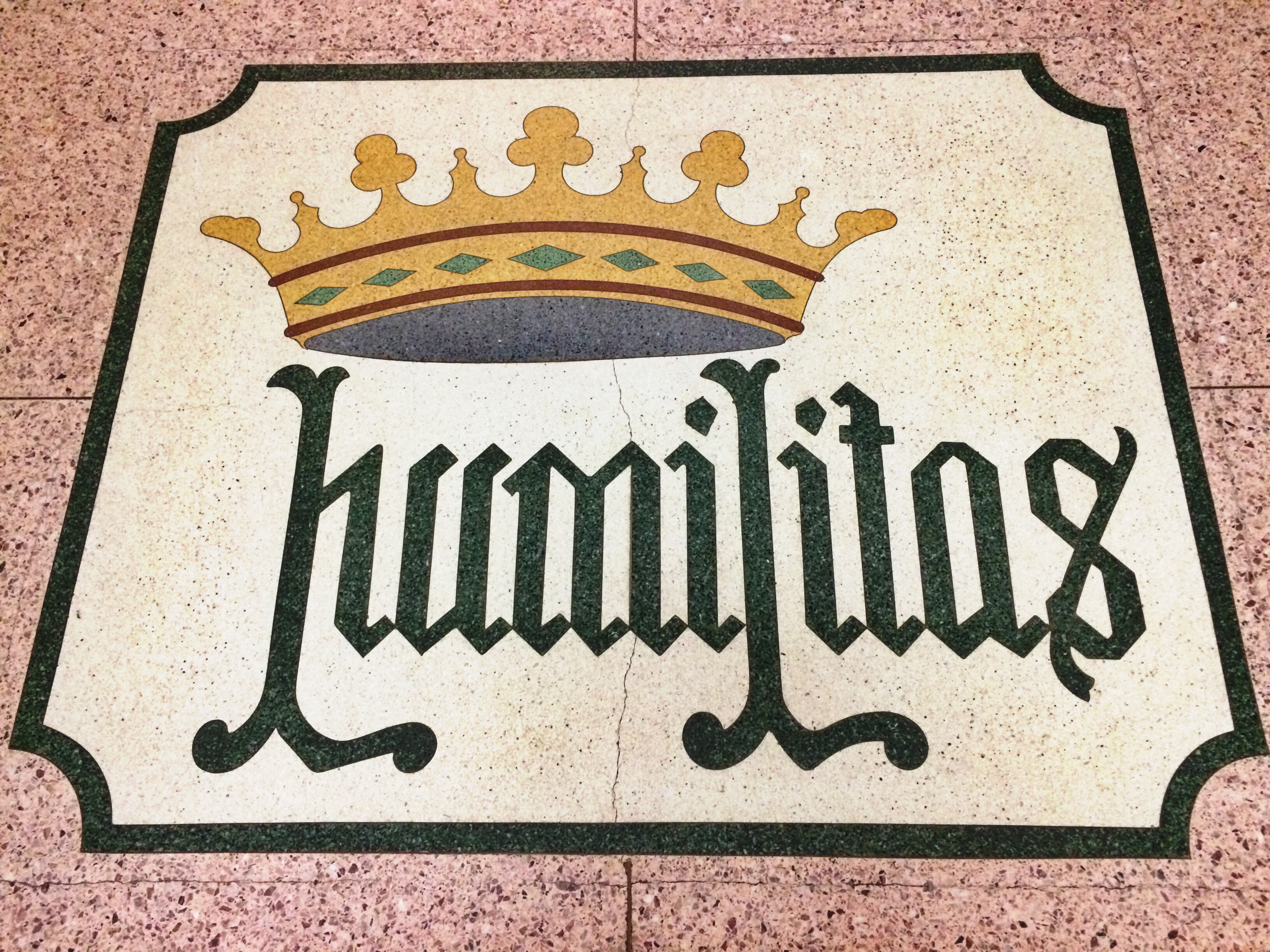 Símbolo da Congregação do Seminário João XXIII, em São Paulo (SP), Brasil.